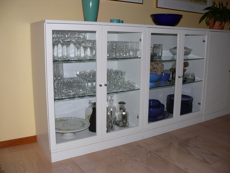 A glass cabinet (vitrine). / Vitrinskåp in Swedish /